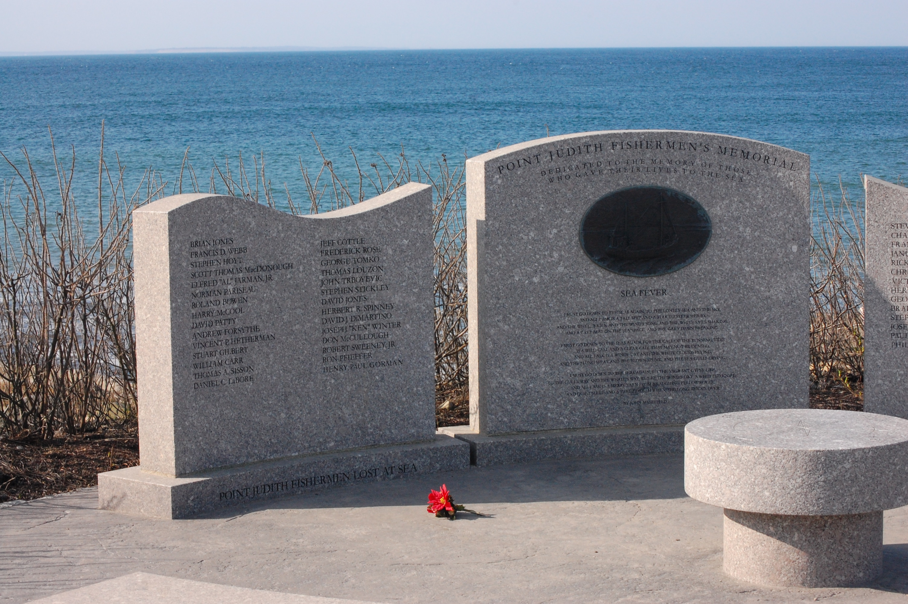 Photograph of the Point Judith Fisherman's Memorial at Fishermen's Memorial State Park